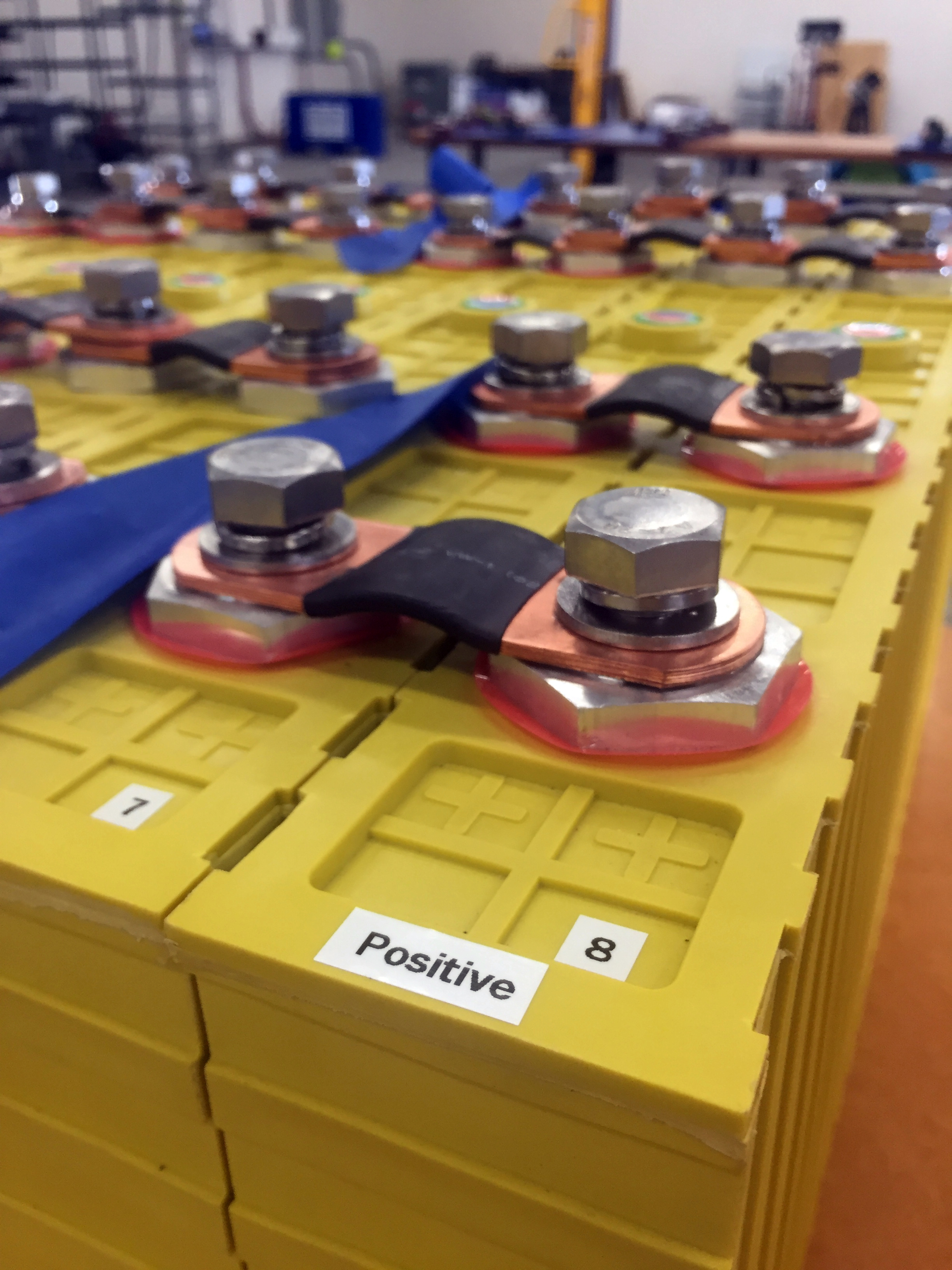 Lithium Iron Phosphate LiFePO4 Cells 700 Ah Amp Hours 3.25 Volts. Two cells are wired in parallel to create a single 3.25V 1400Ah cell, with a capacity of 4,550 Watt hours or 4.55 kWh. Note the multi-layer copper busbar designed to flex more readily than would a single solid connector between cells to account for any height mismatch or vibration.